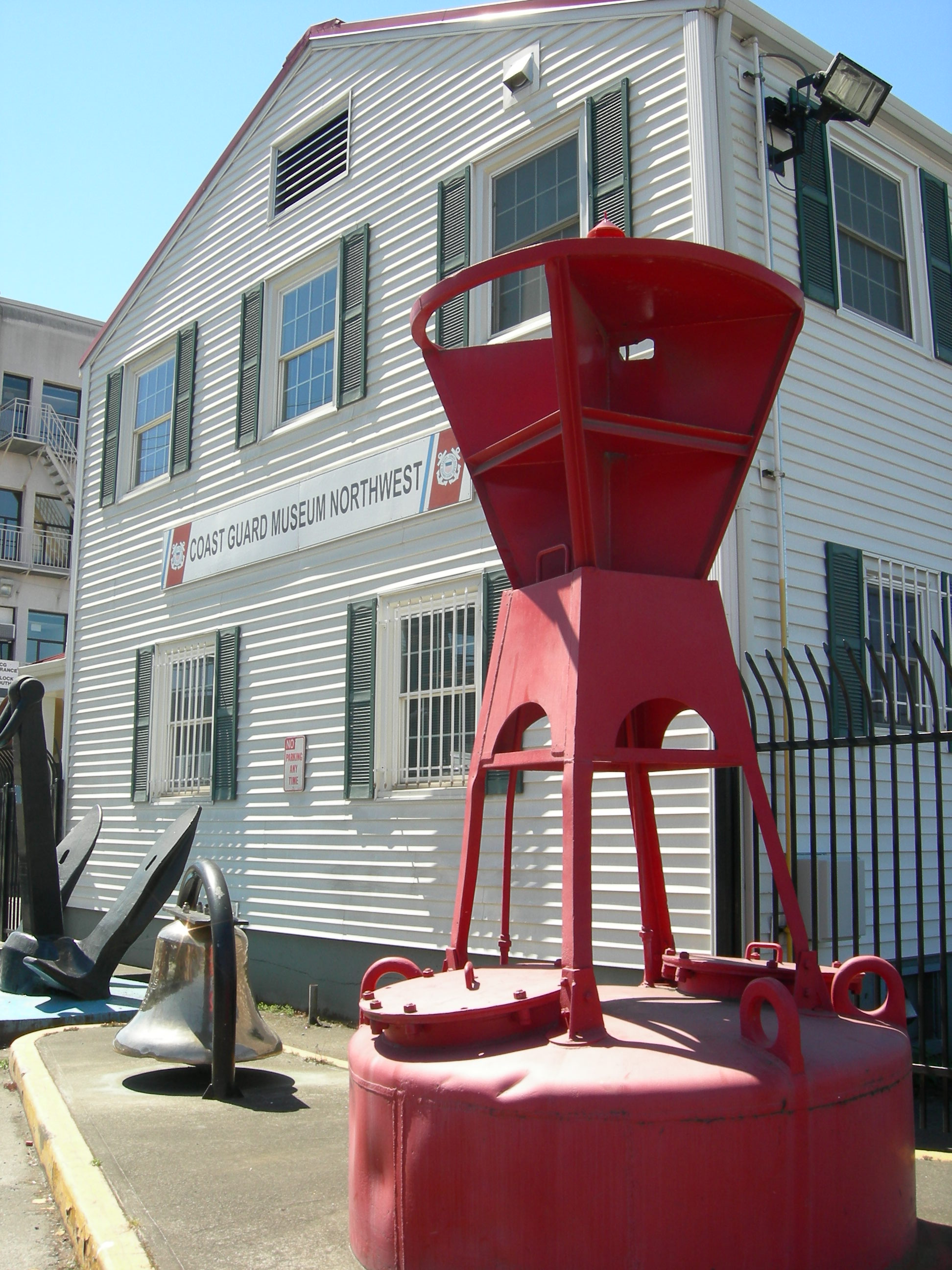 Buoy on sidewalk in front of Coast Guard Museum Northwest, Pier 36 on the Lower Duwamish waterfront, Seattle, Washington.